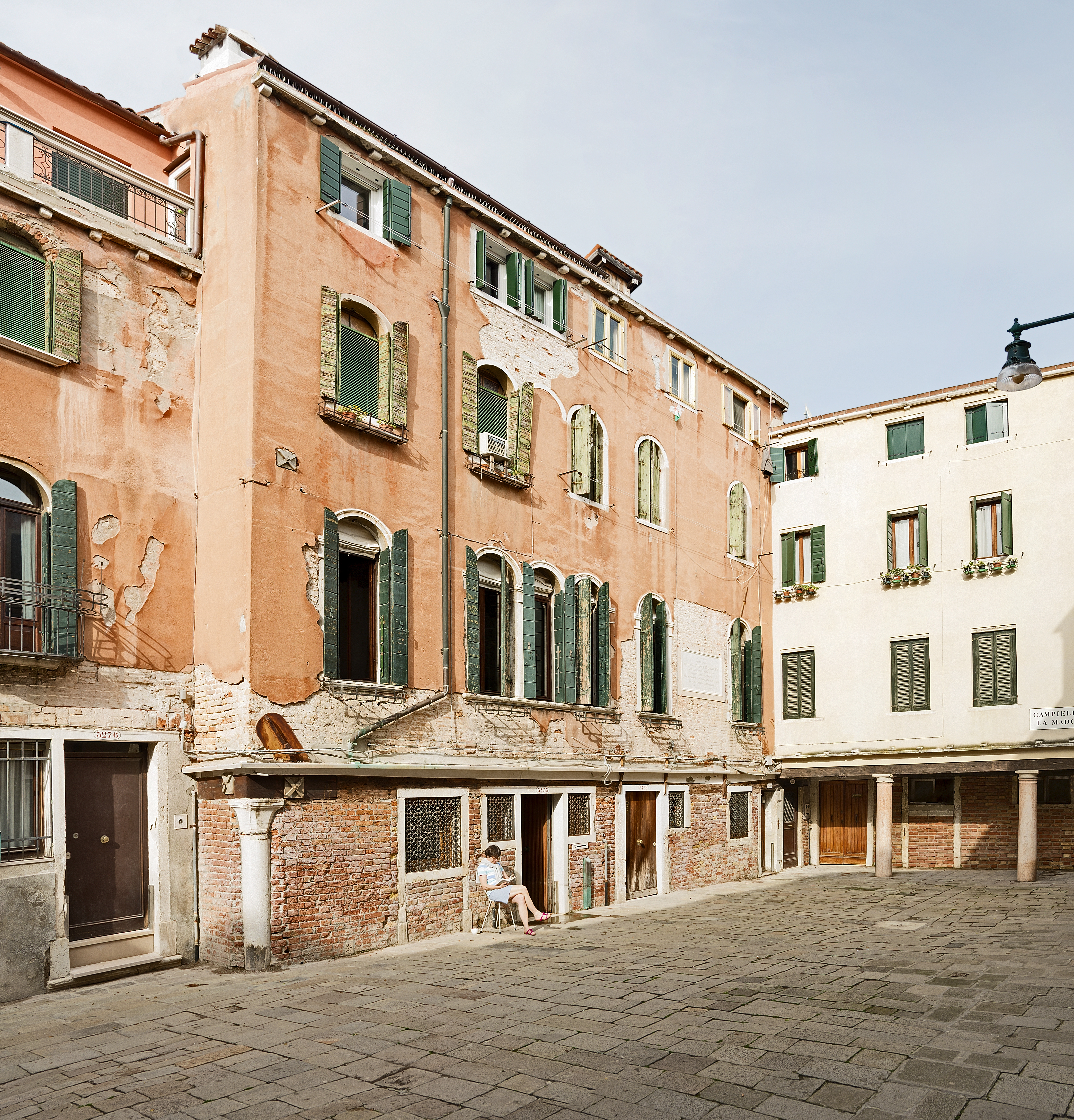 House of Francesco Guardi - Campiello de la Madona - Cannaregio - Venice